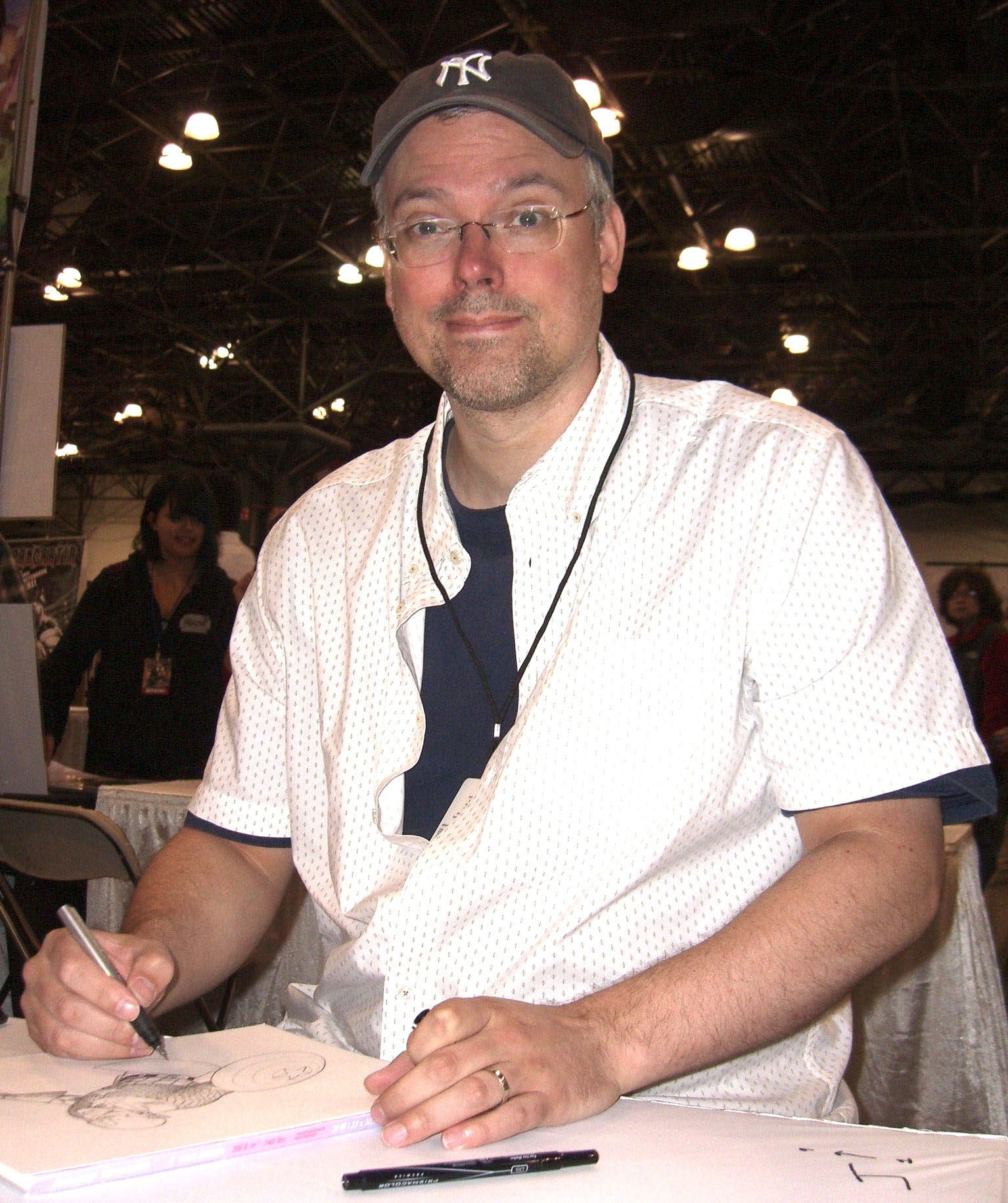 Comic book creator Steve McNiven, at the New York Comic Convention in Manhattan, October 10, 2010. This photo was created by Luigi Novi. It is not in the public domain, and use of this file outside of the licensing terms is a copyright violation.